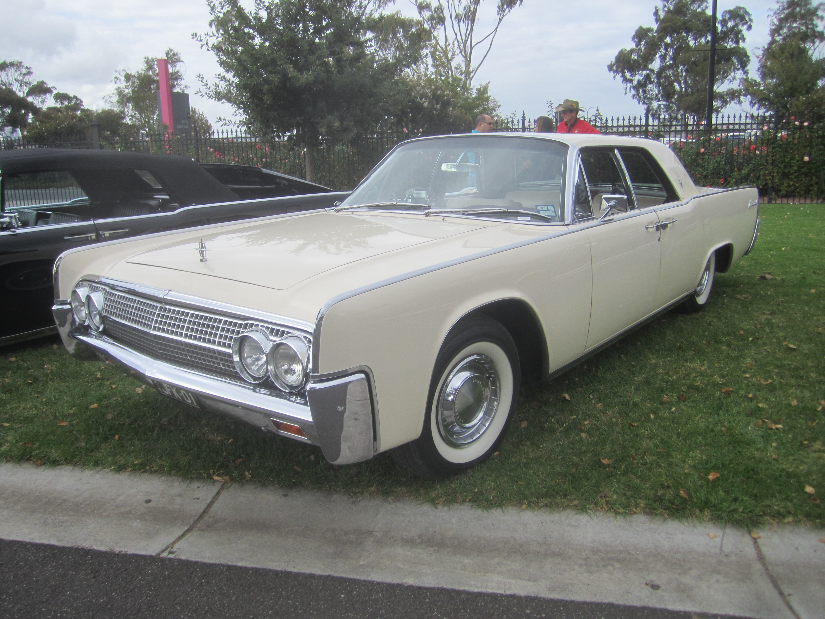 The Lincoln Continental replaced the Capri/Premier. The 4th generation Continental was built from 1961-69, a slab sided car with its trademark rear hinged rear 'suicide' doors (designed this way to make it easier to get in and out). Only available in 4 Sedan or Convertible. 1963 saw only a mild grille update. Engine; 430 cu in MEL V8